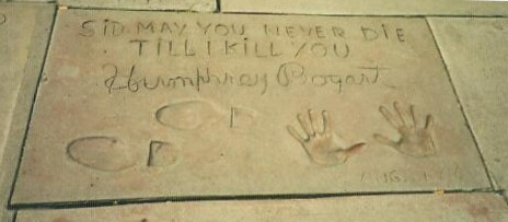 Feet- and handprints of Humphrey Bogart in the Grauman's Chinese Theatre in Hollywood